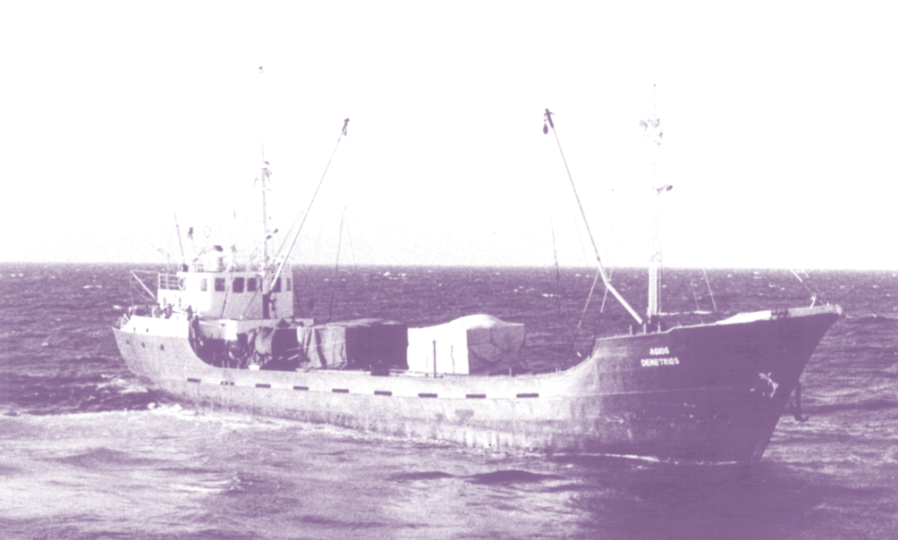 The bomb-laden freighter, Agius Demetrius, was intercepted and sunk by the Israeli Navy on September 30, 1978 off the Sinai coast near Dahab.